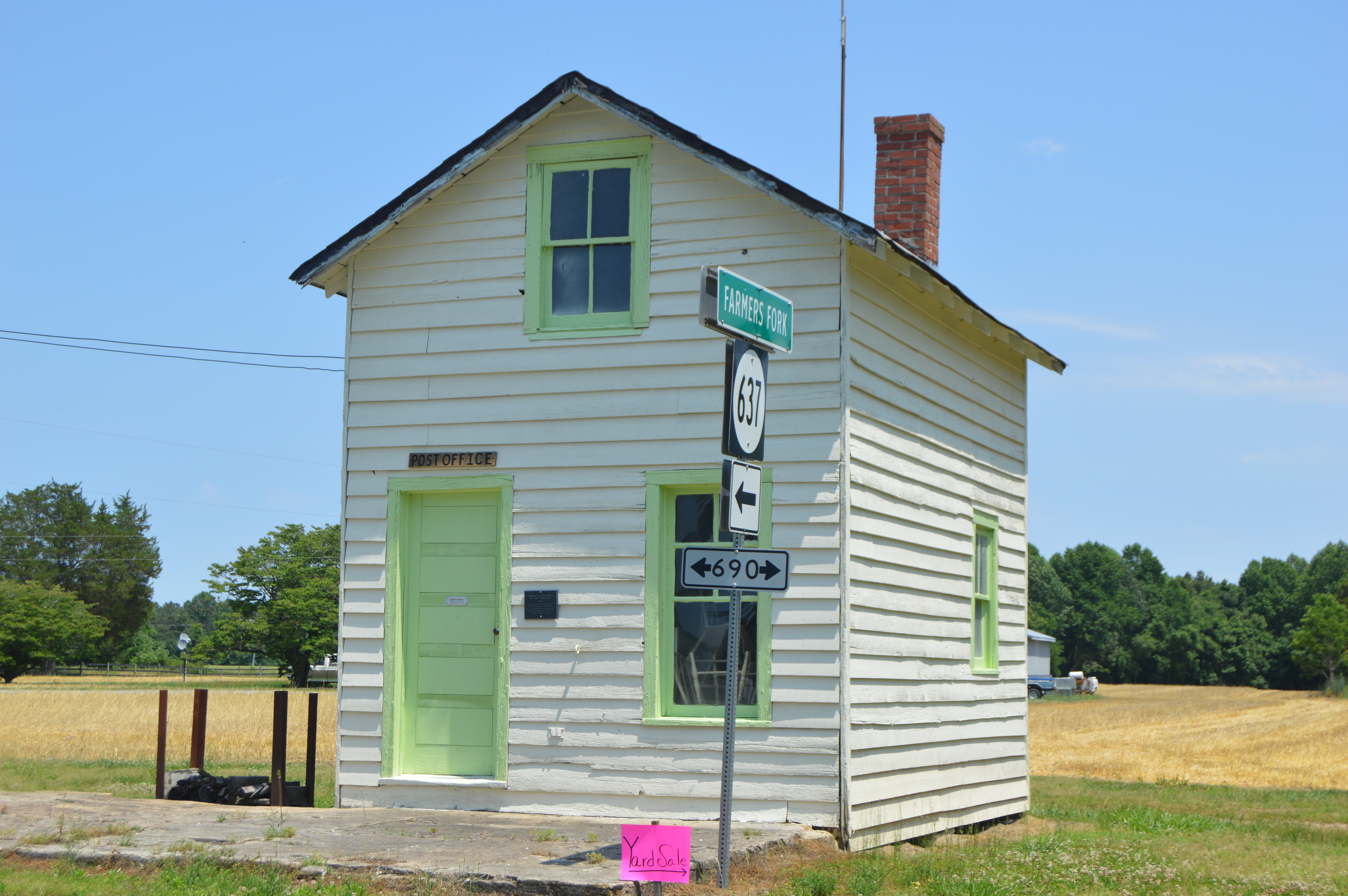 Front of the former Farmers Fork post office, located at the intersection of Newland and Menokin Roads in rural Richmond County, Virginia, United States.